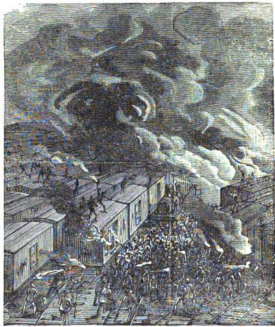 The mob burning the freight trains of the Pennsylvania Railroad, Pittsburgh, PA July 22 1877